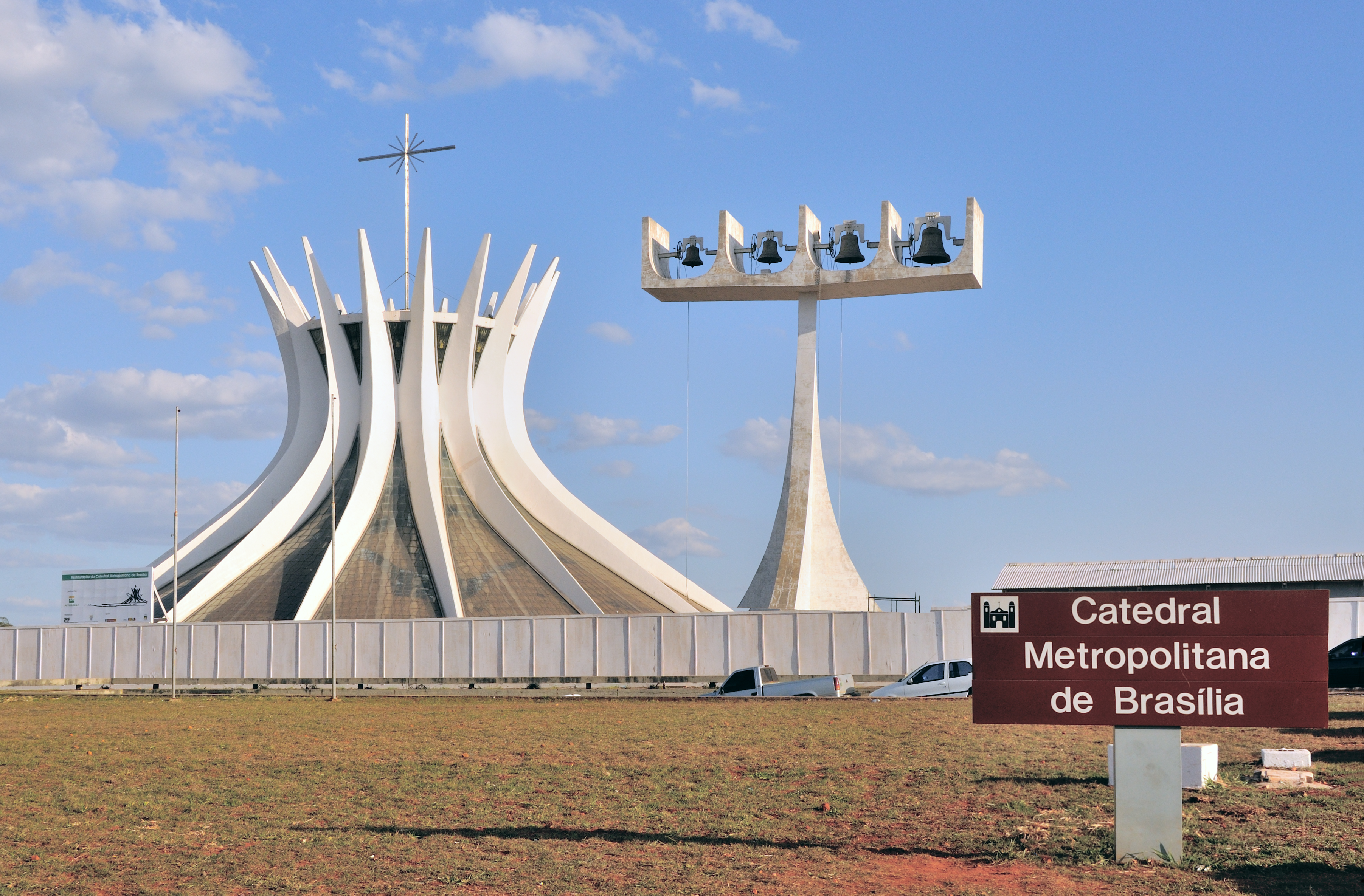 The Cathedral of Brasilia with its bell tower.